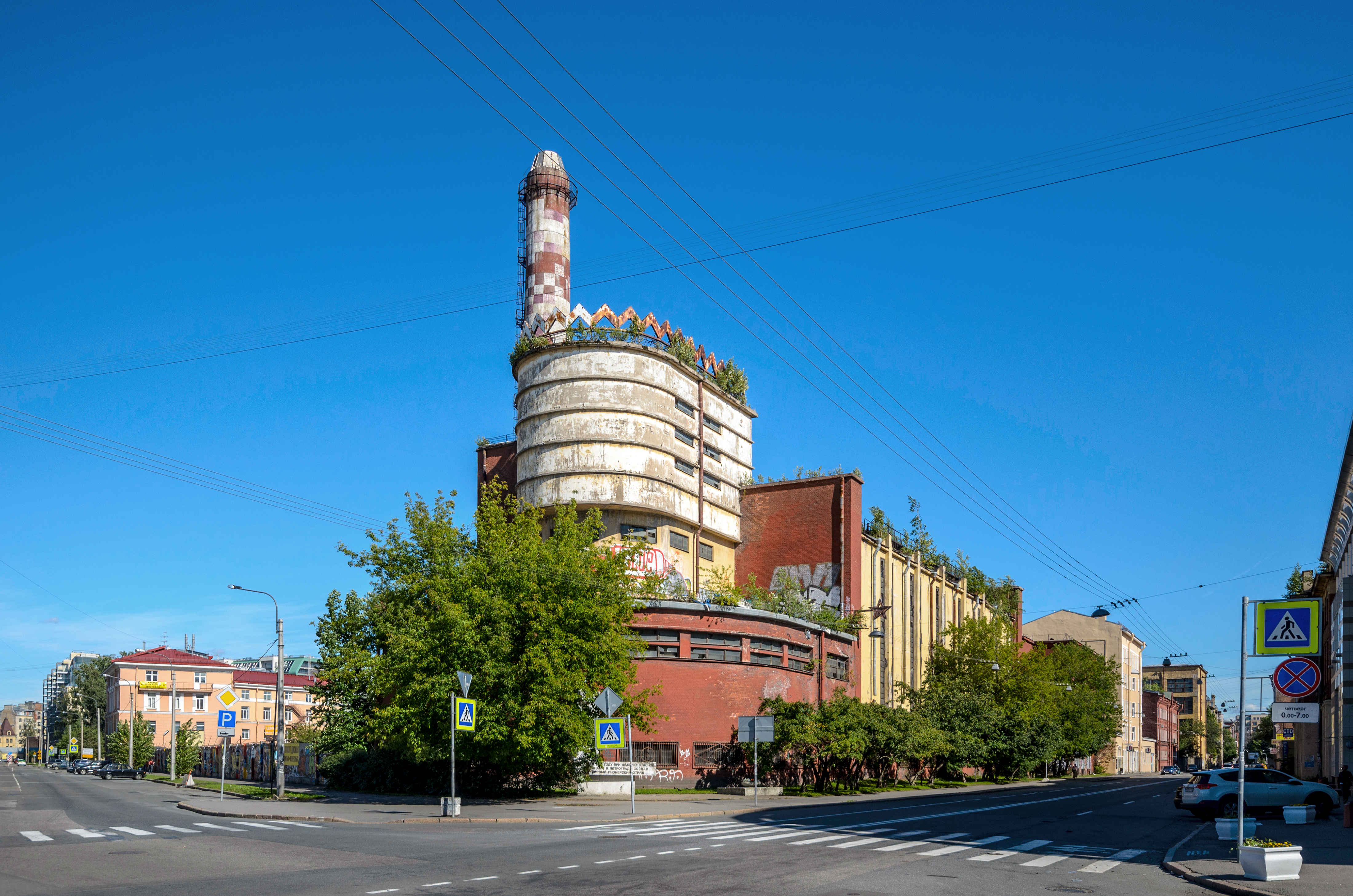 Power Station of the Red Banner Textile Factory in Saint Petersburg